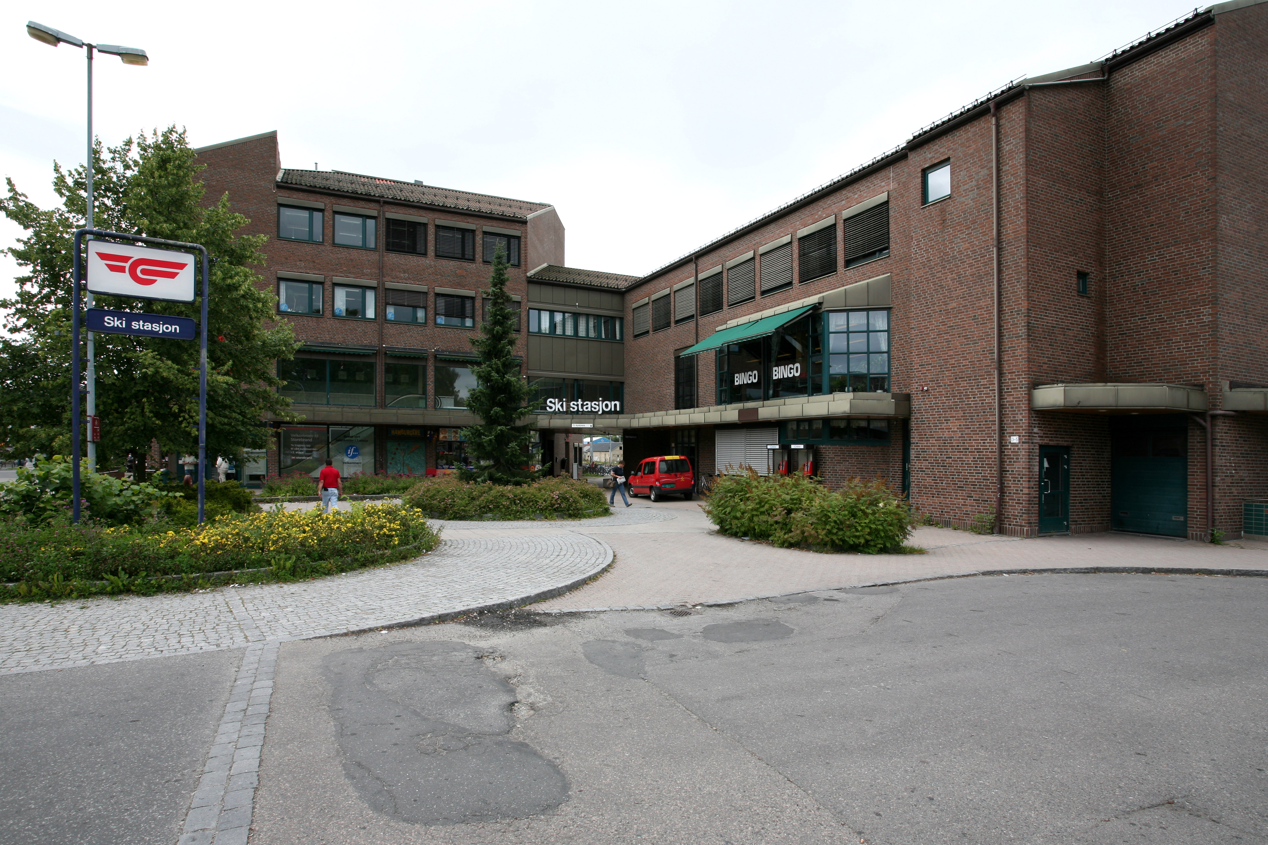 Picture of Ski Railway Station (Norway)